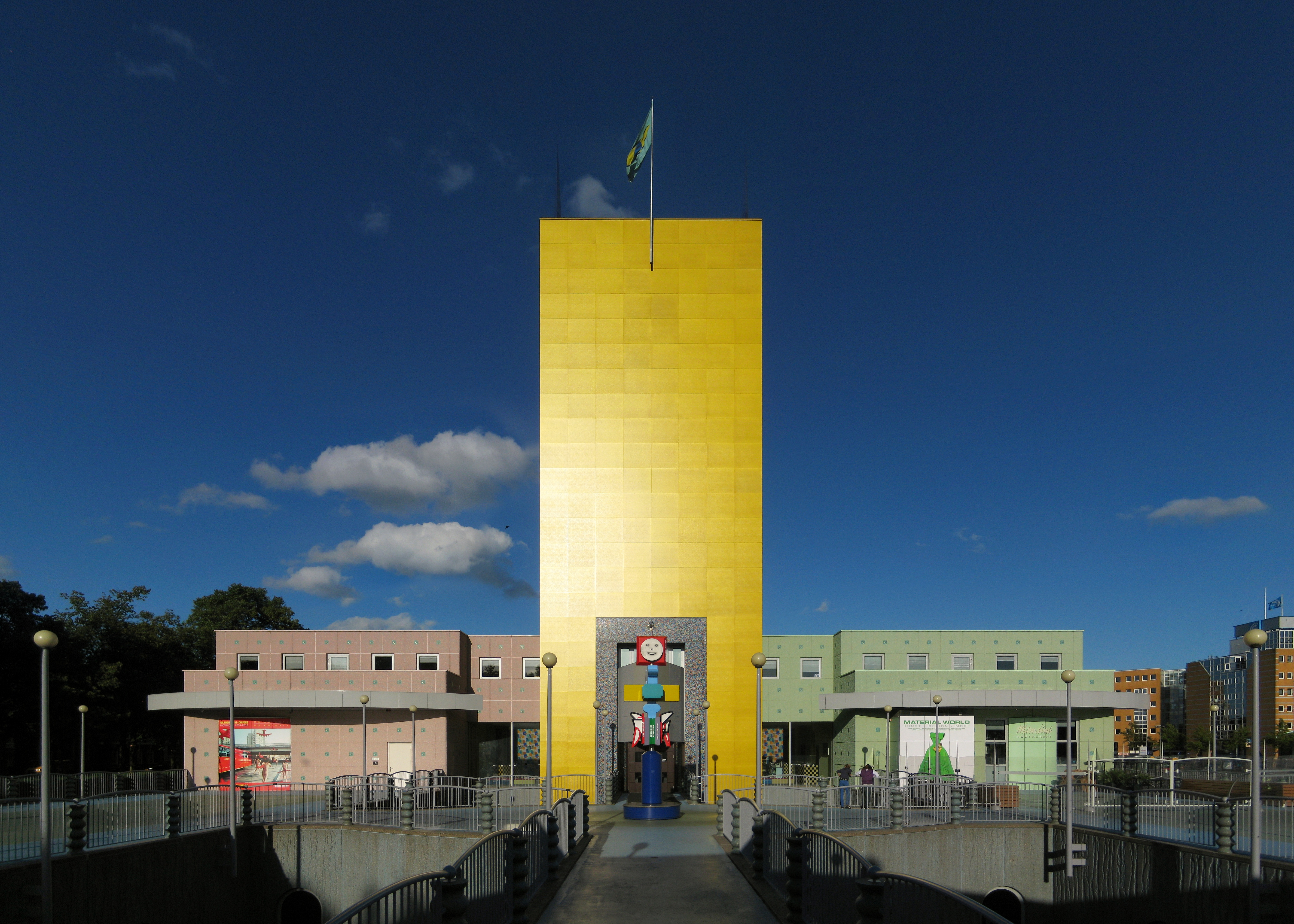 The main building of the Groninger Museum (1994) in the Dutch city of Groningen.